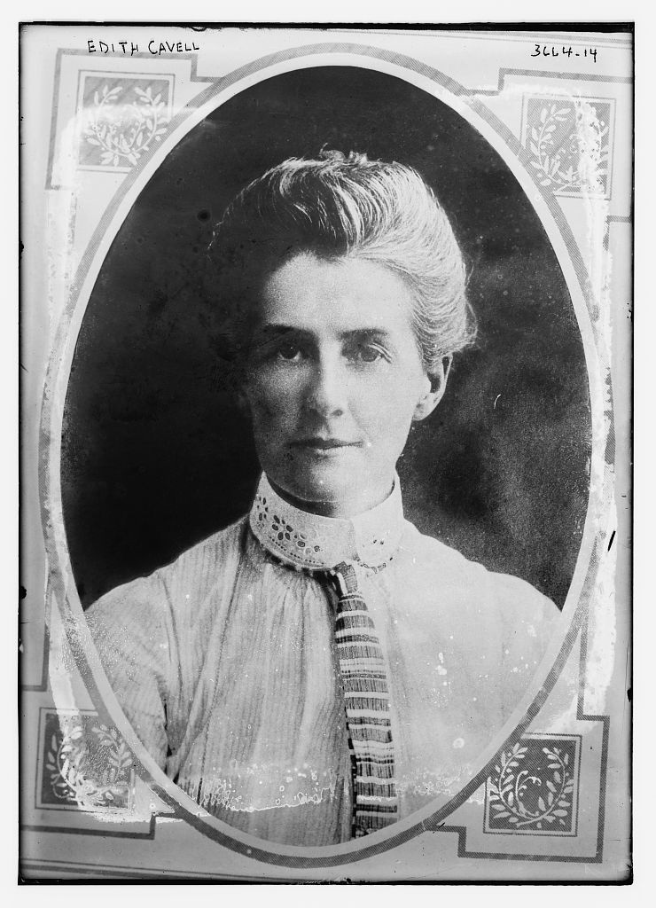 Edith Cavell portrait